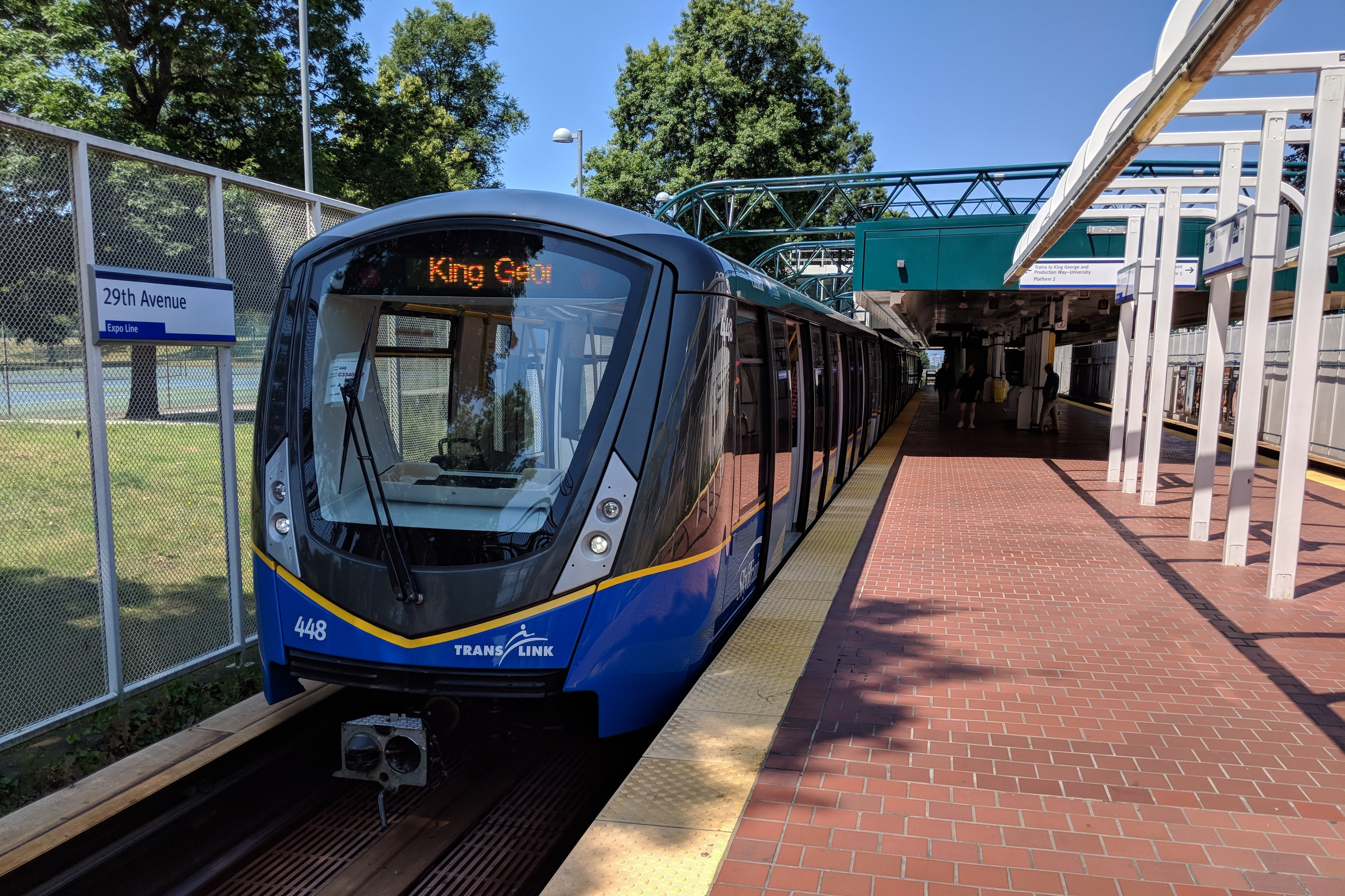 Platform level at 29th Avenue station. A new Mark III train has stopped at the station. This particular train is undergoing testing before entering revenue service. June 2019.